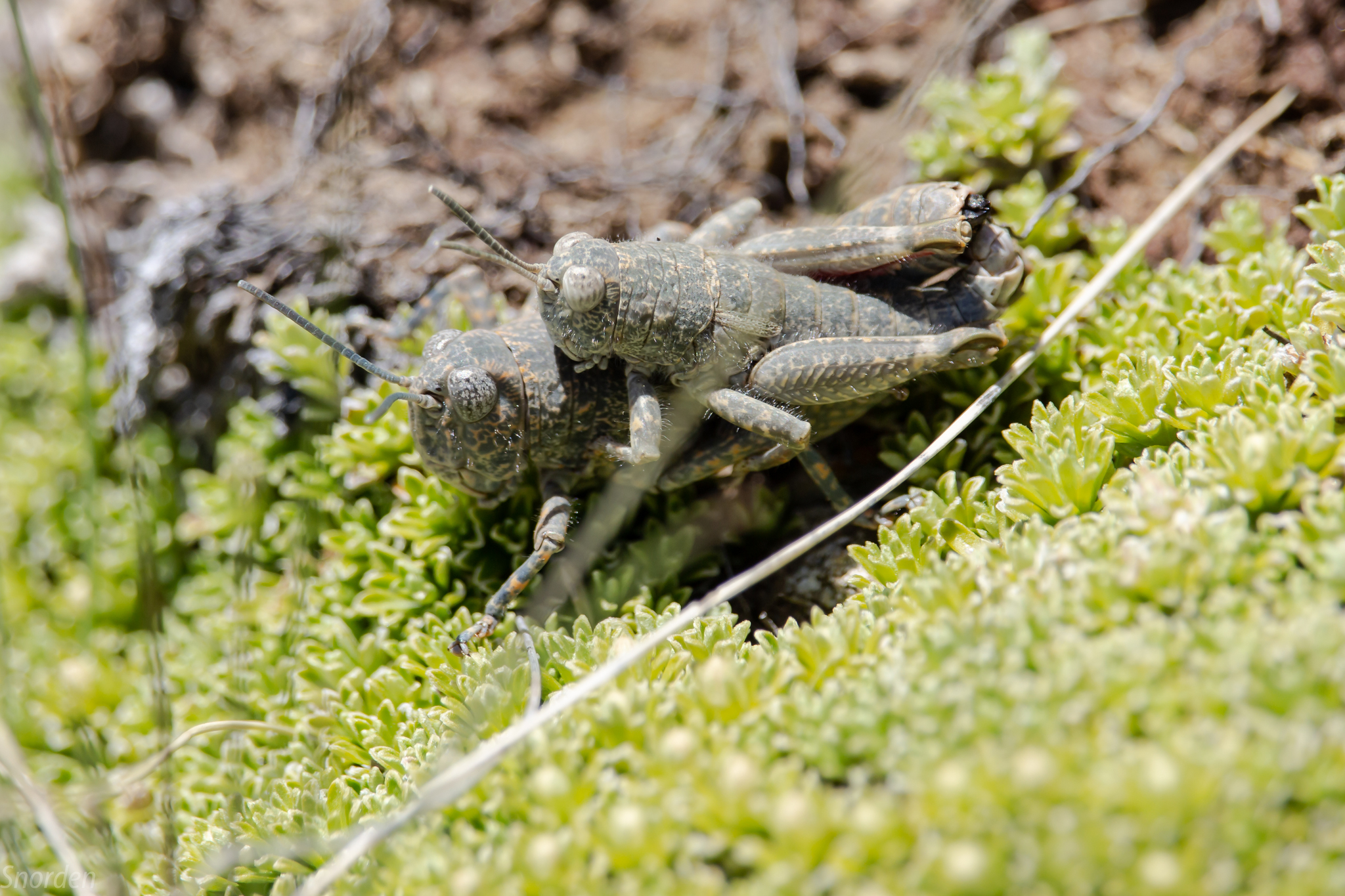 Brachaspis nivalis